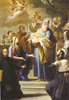 Candelora